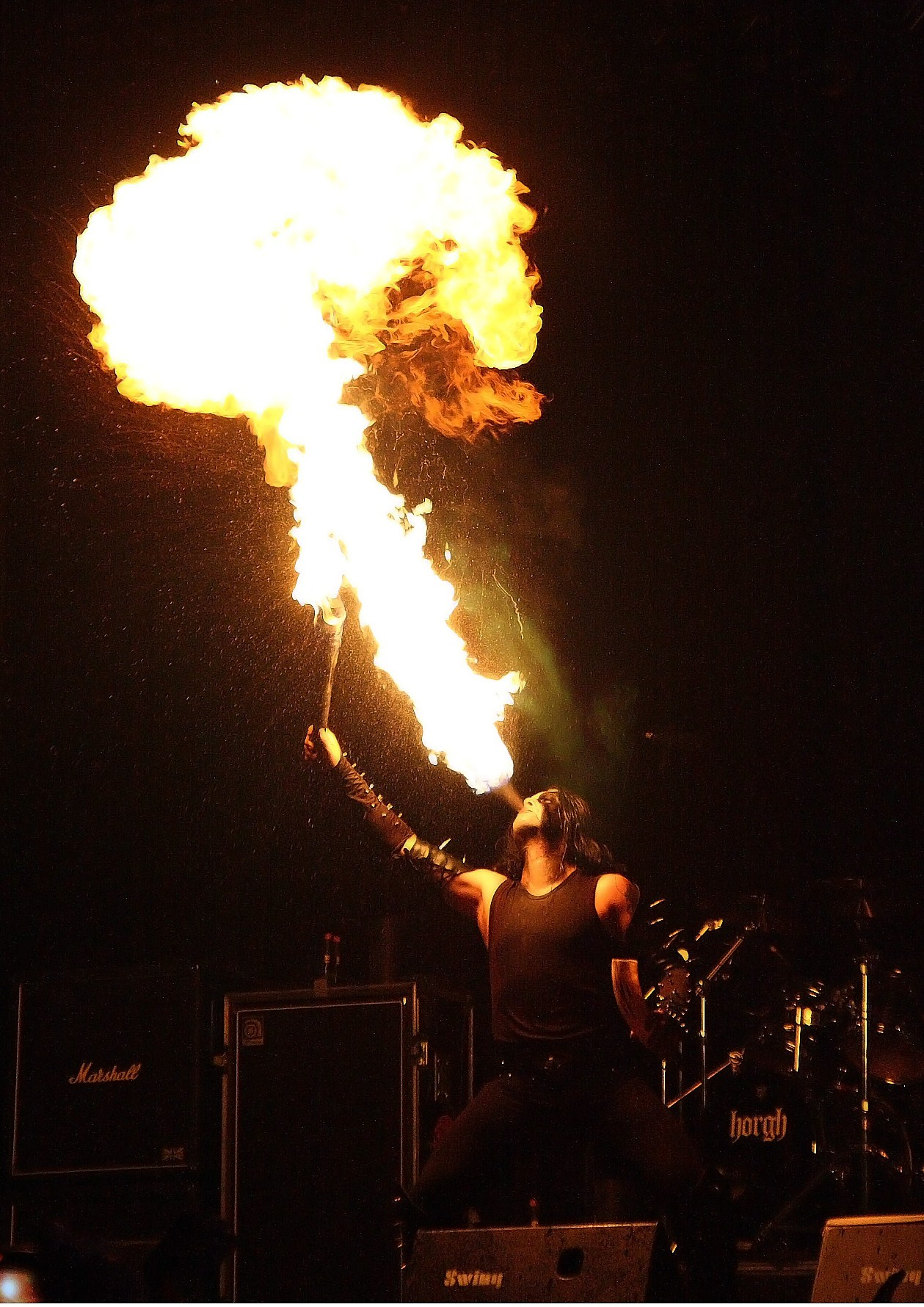 Immortal: llamaradas